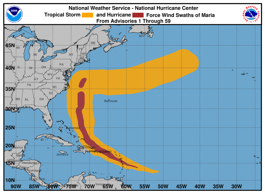 This graphic shows how the size of the storm has changed, and the areas potentially affected so far by sustained winds of tropical storm force (in orange) and hurricane force (in red). The display is based on the wind radii contained in the set of Forecast/Advisories indicated at the top of the figure. Users are reminded that the Forecast/Advisory wind radii represent the maximum possible extent of a given wind speed within particular quadrants around the tropical cyclone. As a result, not all locations falling within the orange or red swaths will have experienced sustained tropical storm or hurricane force winds, respectively.